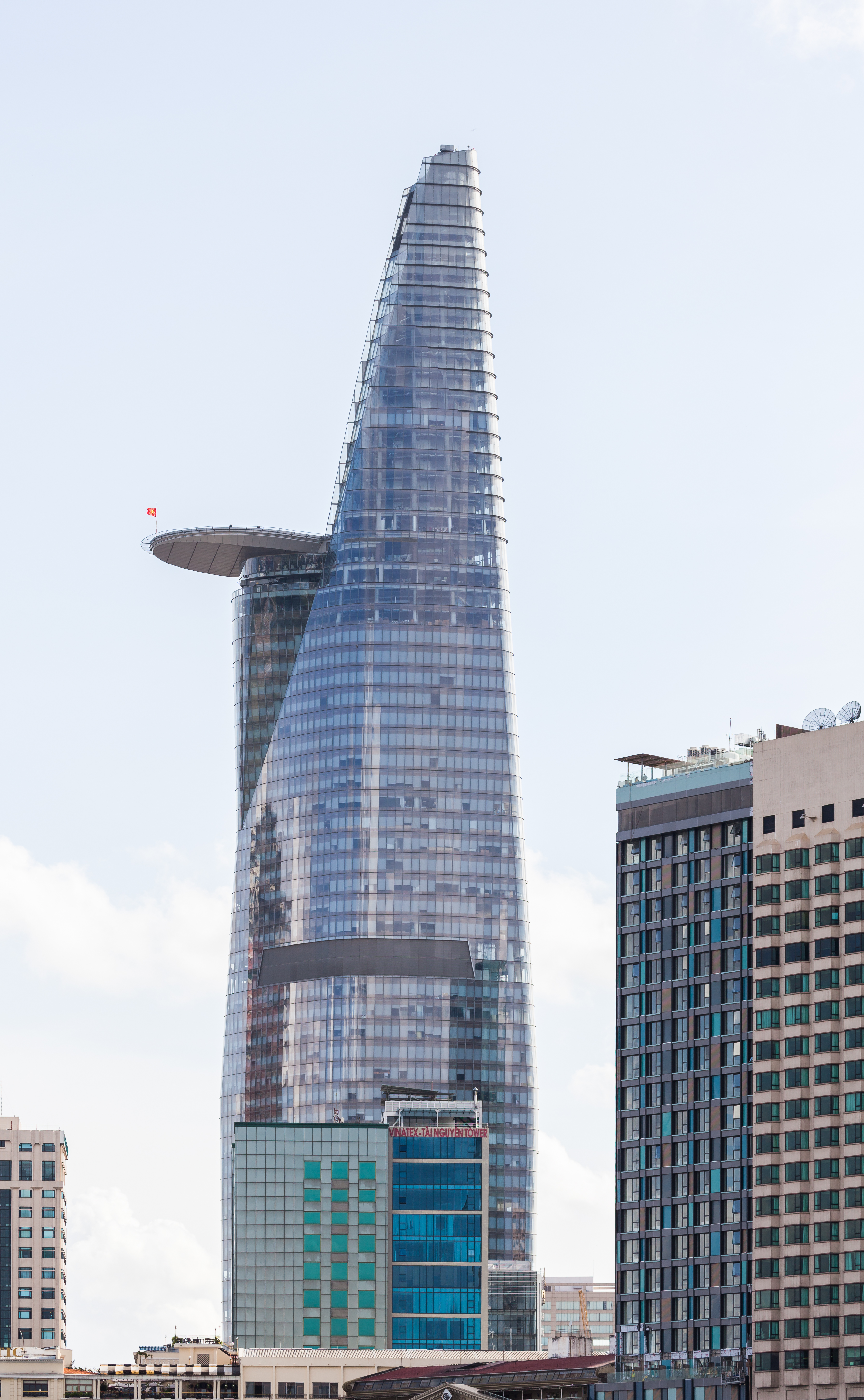 Bitexco Financial Tower, Ho Chi Minh City, VietnamTiếng Việt: Toà nhà Bitexco, Thành phố Hồ Chí Minh, Việt Nam.